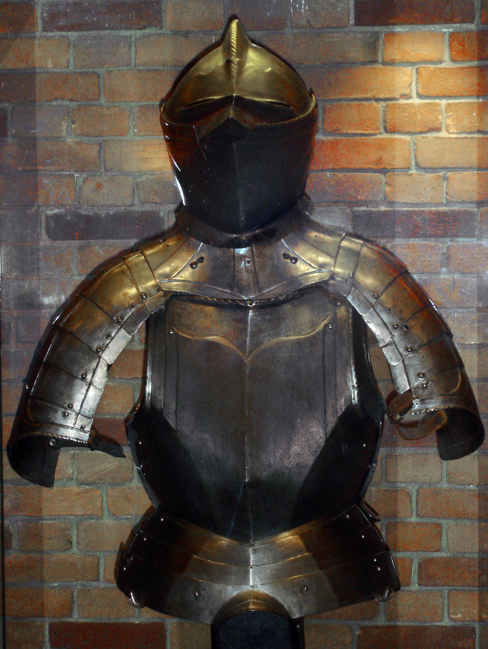 Fourth armor in the citizens' hall of the historical city hall in Münster, Westphalia, Germany